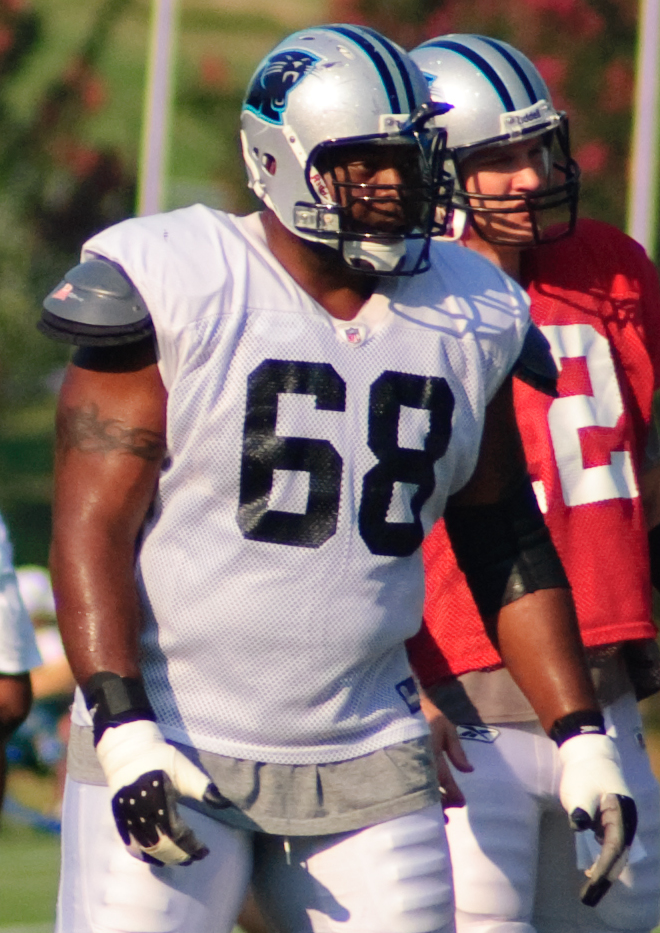 A morning at the Carolina Panther's Training Camp at Wofford College in Spartanburg, S.C. on 8/10/2009